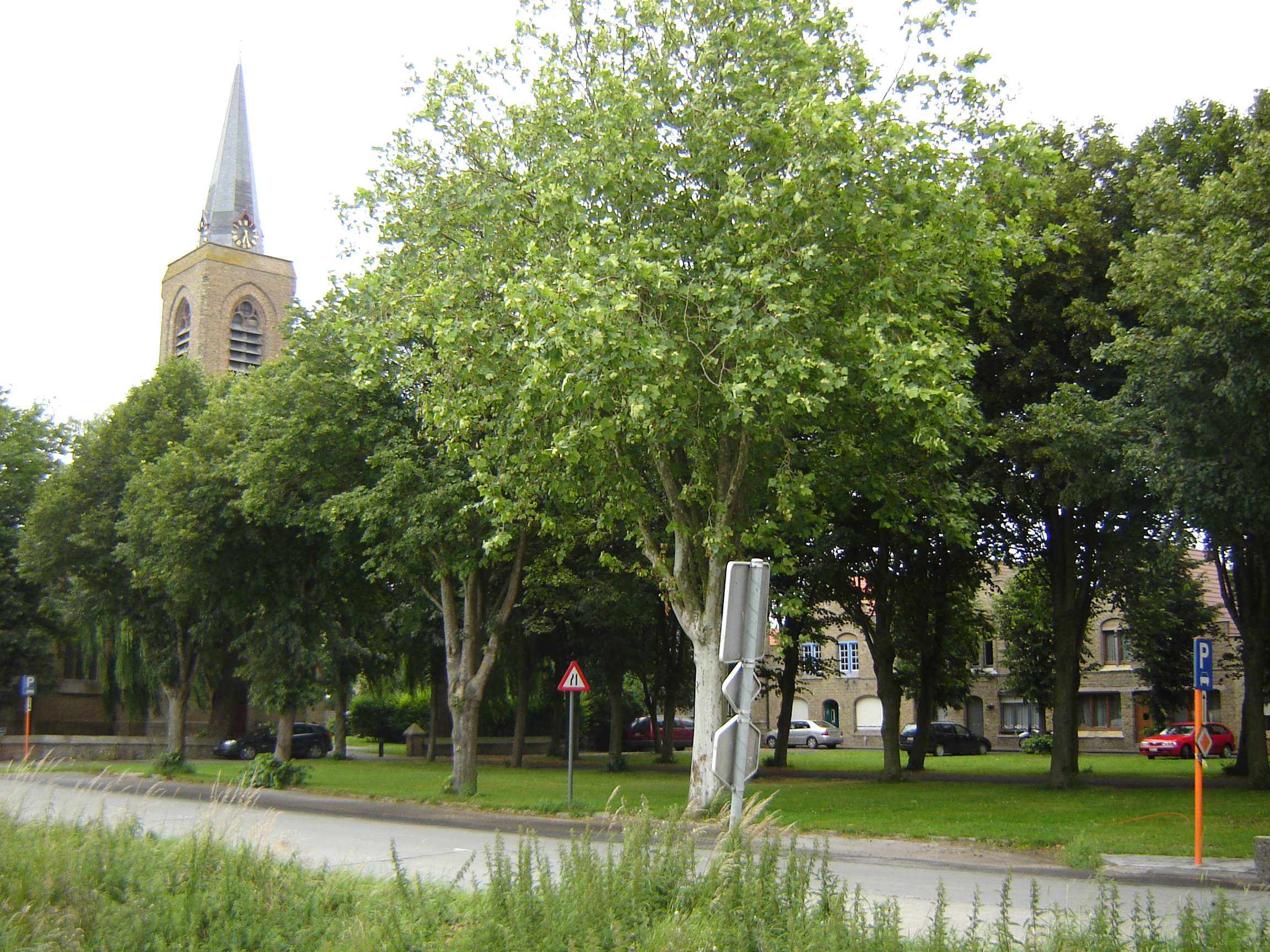 Sint-Veerleplein village square and church of Saint Pharailde in Oostkerke. Built in the beginning of the 1920s, after the village had been completely destroyed during World War I. Oostkerke, Diksmuide, West Flanders, Belgium